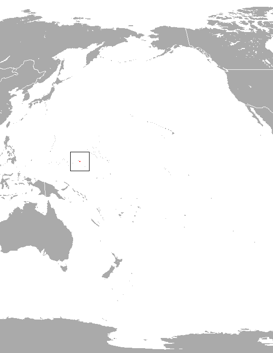 Caroline Flying Fox (Pteropus molossinus) range